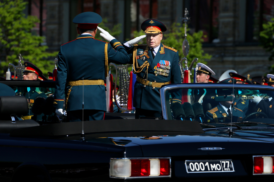 Victory Day military parade on Red Square 2016-05-09